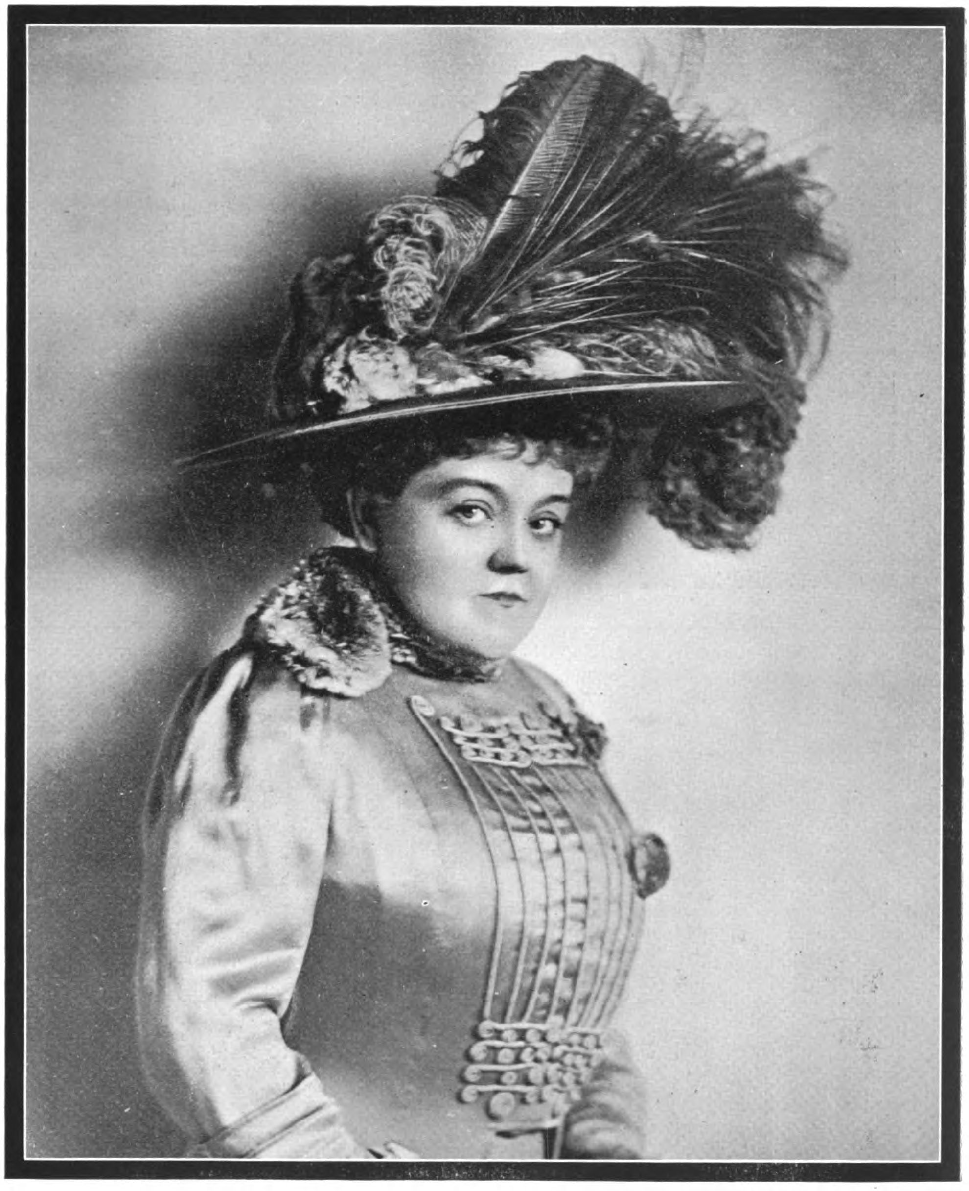 Marie Cahill in The Boys and Betty 1908